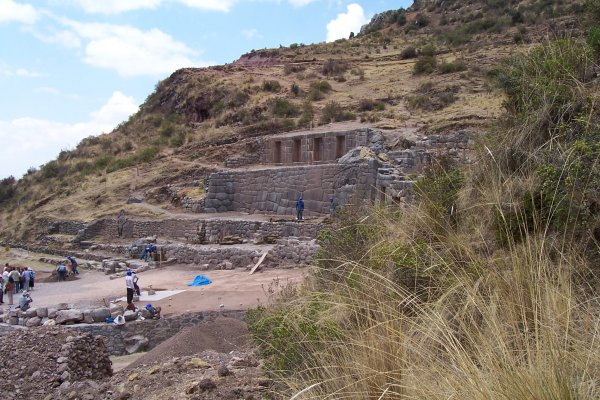 Taken by Davidx in September 2005.